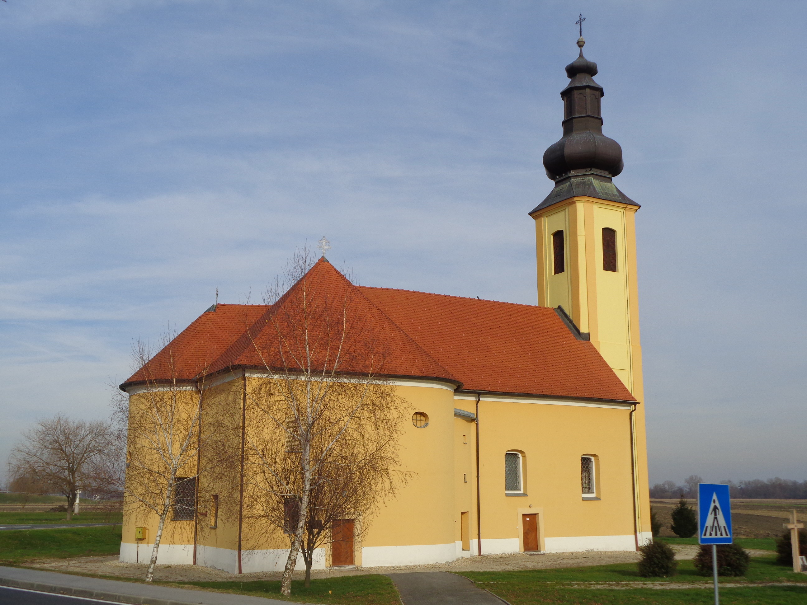 The Holy Cross Church in Sveti Križ village, Medjimurje County, Croatia - south view